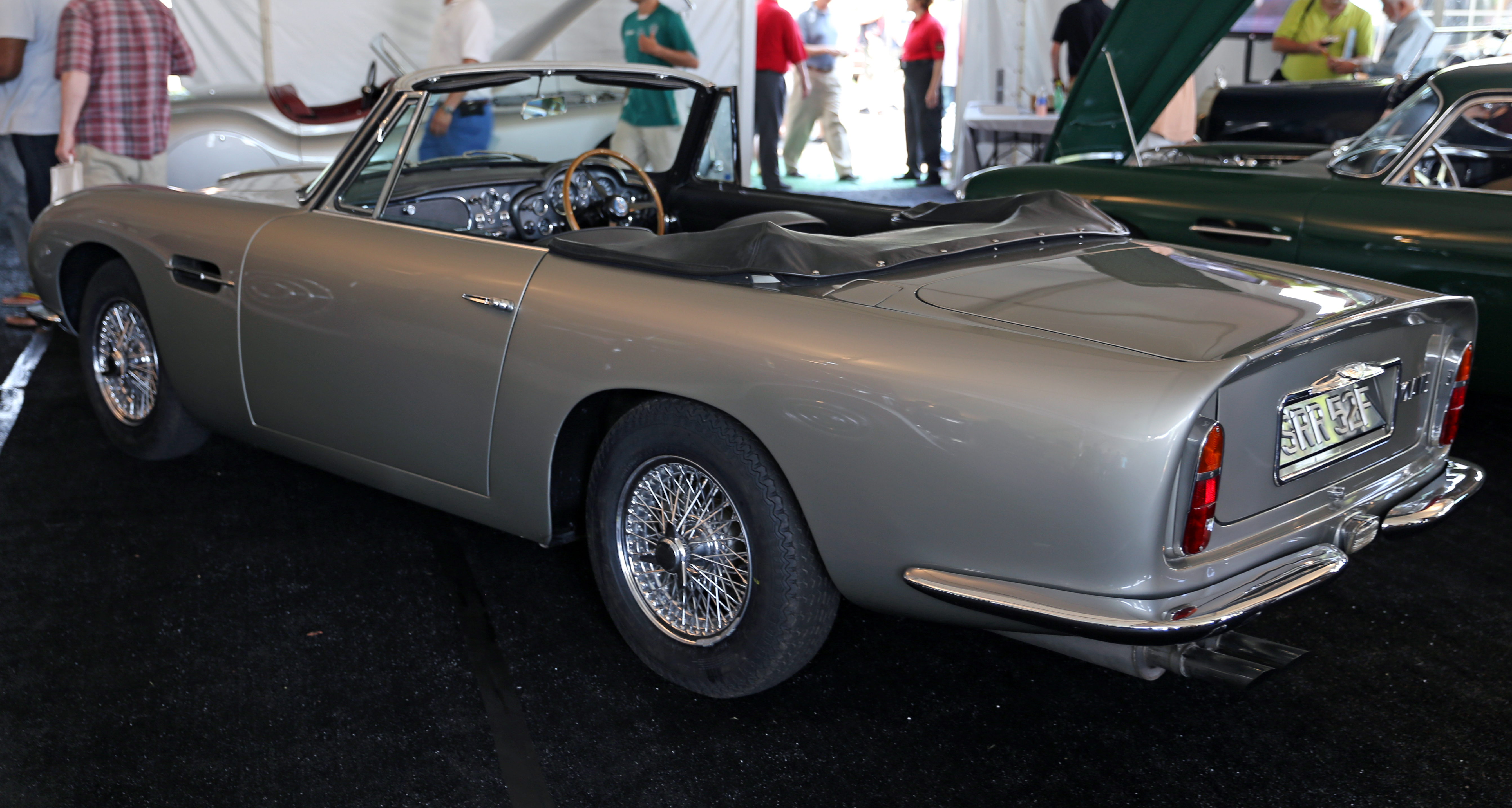 1967 Aston Martin DB6 Volante, one of 29 built to Vantage specs, at the Bonhams auction attached to the 2013 Greenwich Concours d'Elegance. This car used to be used by Leonard Bernstein, while working for the London Symphony Orchestra.